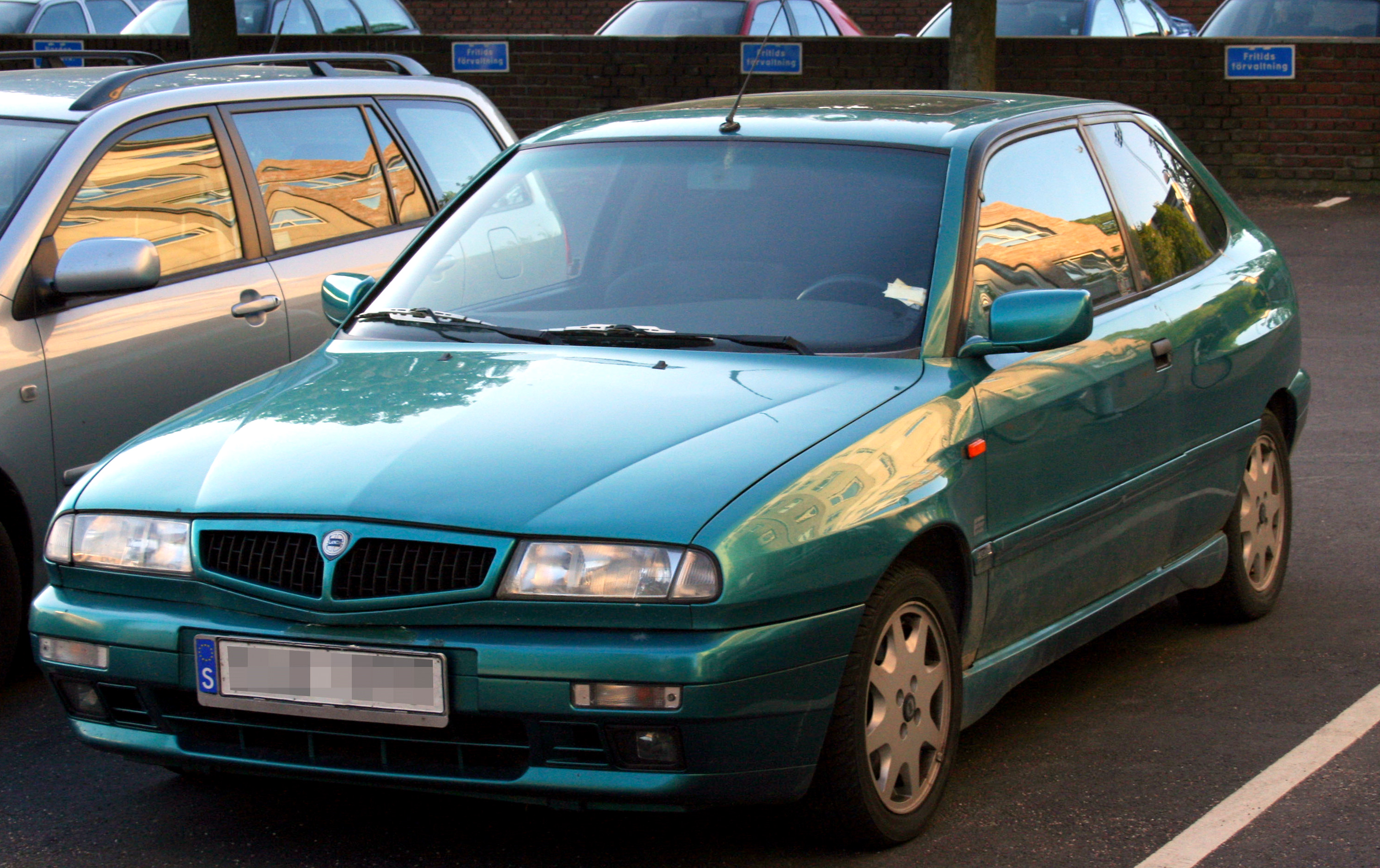 Lancia Delta 2, HPE, I think.